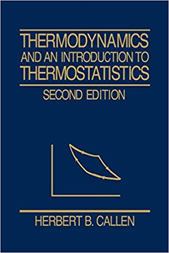 PV diagram of a Carnot cycle.